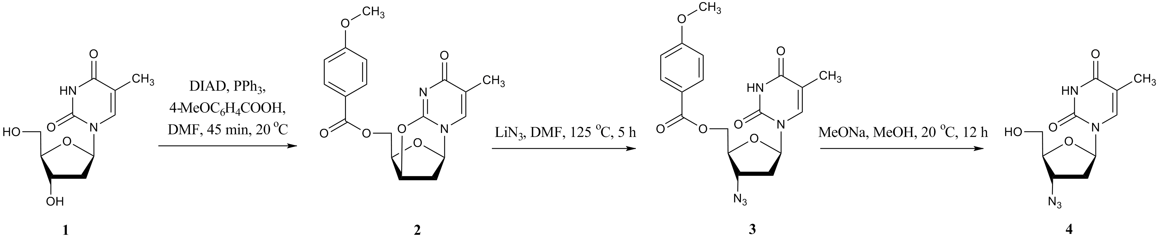 Synthesis of AZT from thymidyne